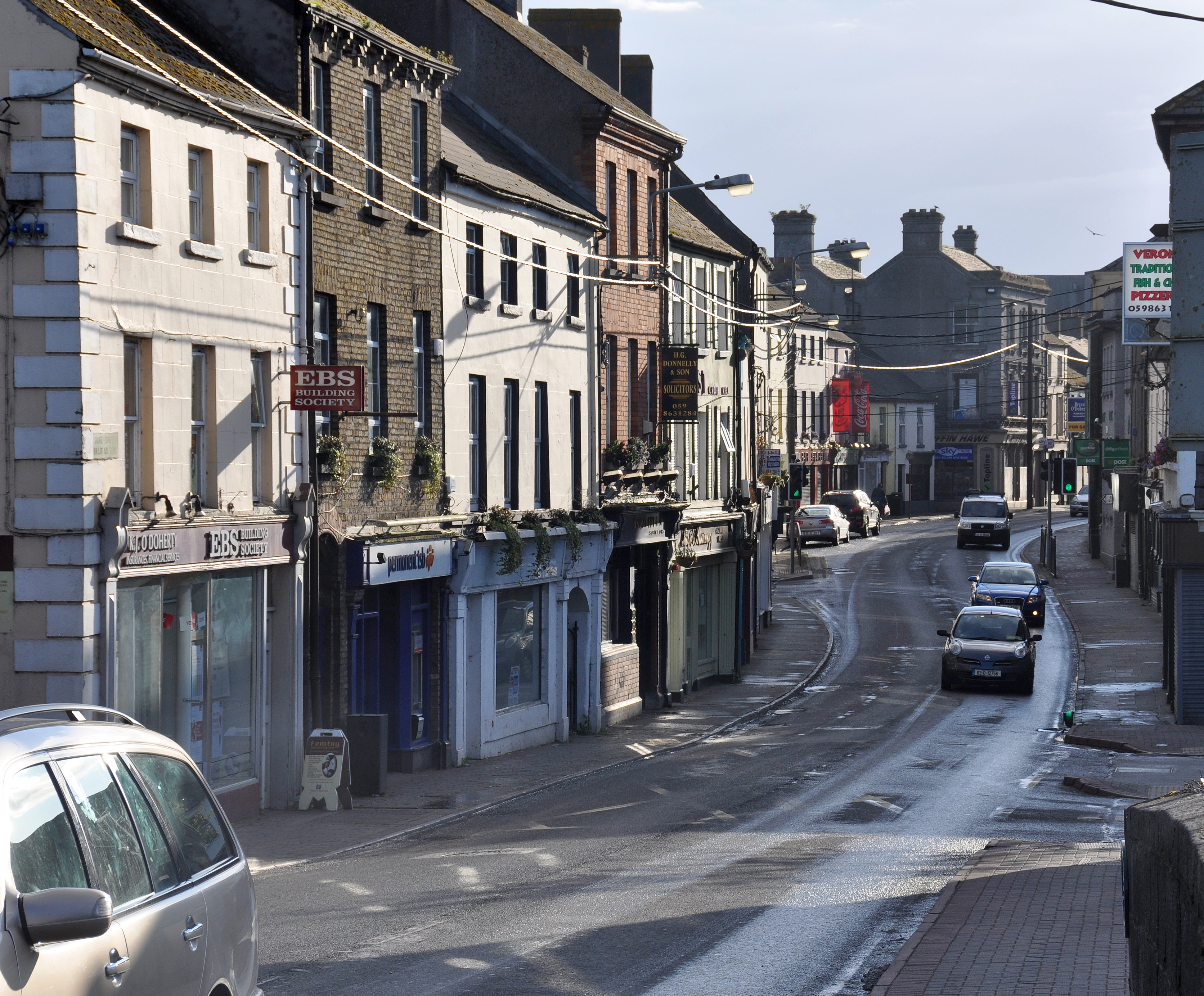 Duke Street, Athy Co. Kildare, Ireland - August 2011